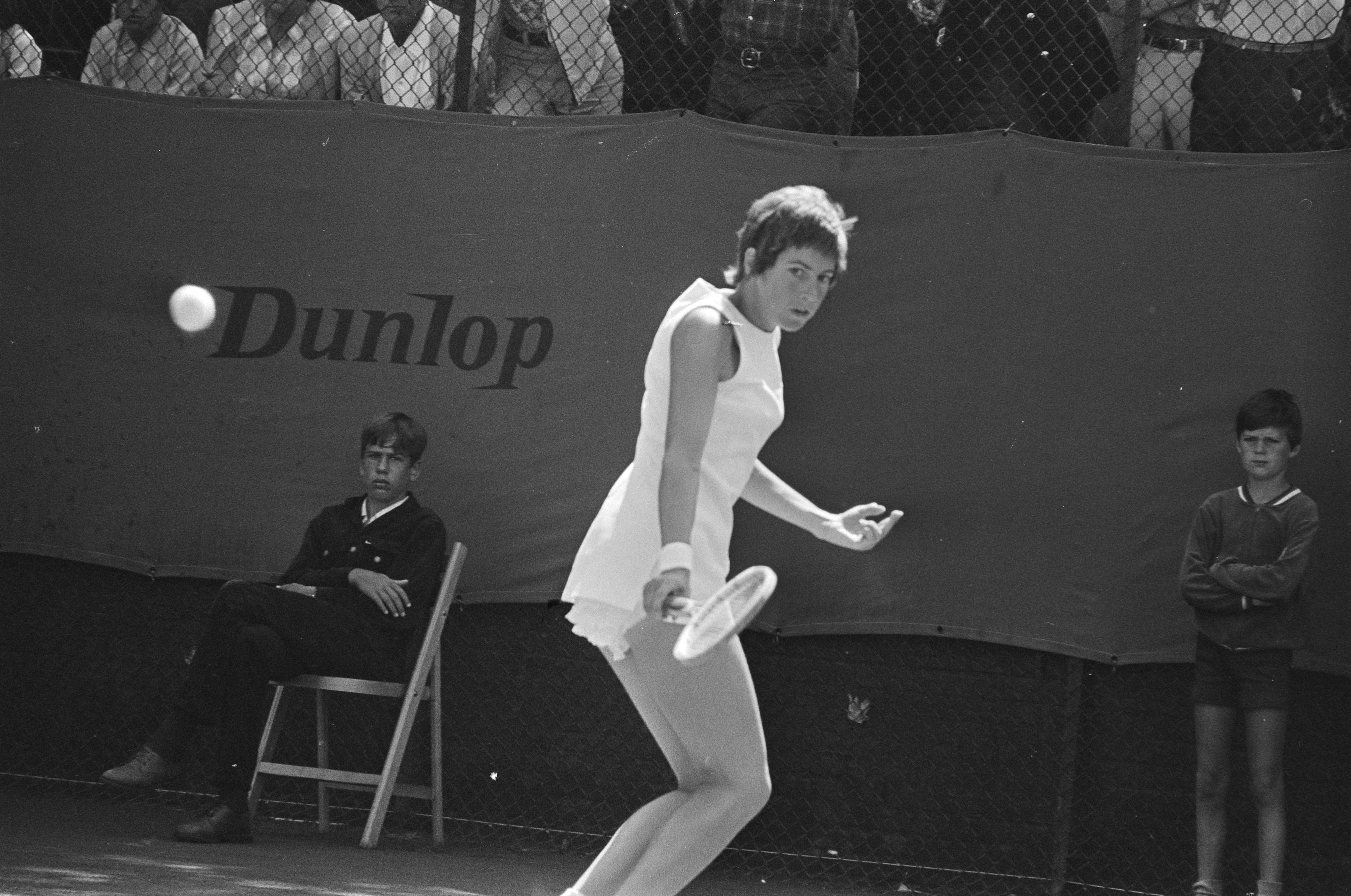 Swedish tennis player Christina Sandberg in the final of the 1971 Dutch Open tournament in Hilversum against Australian Evonne Goolagong.